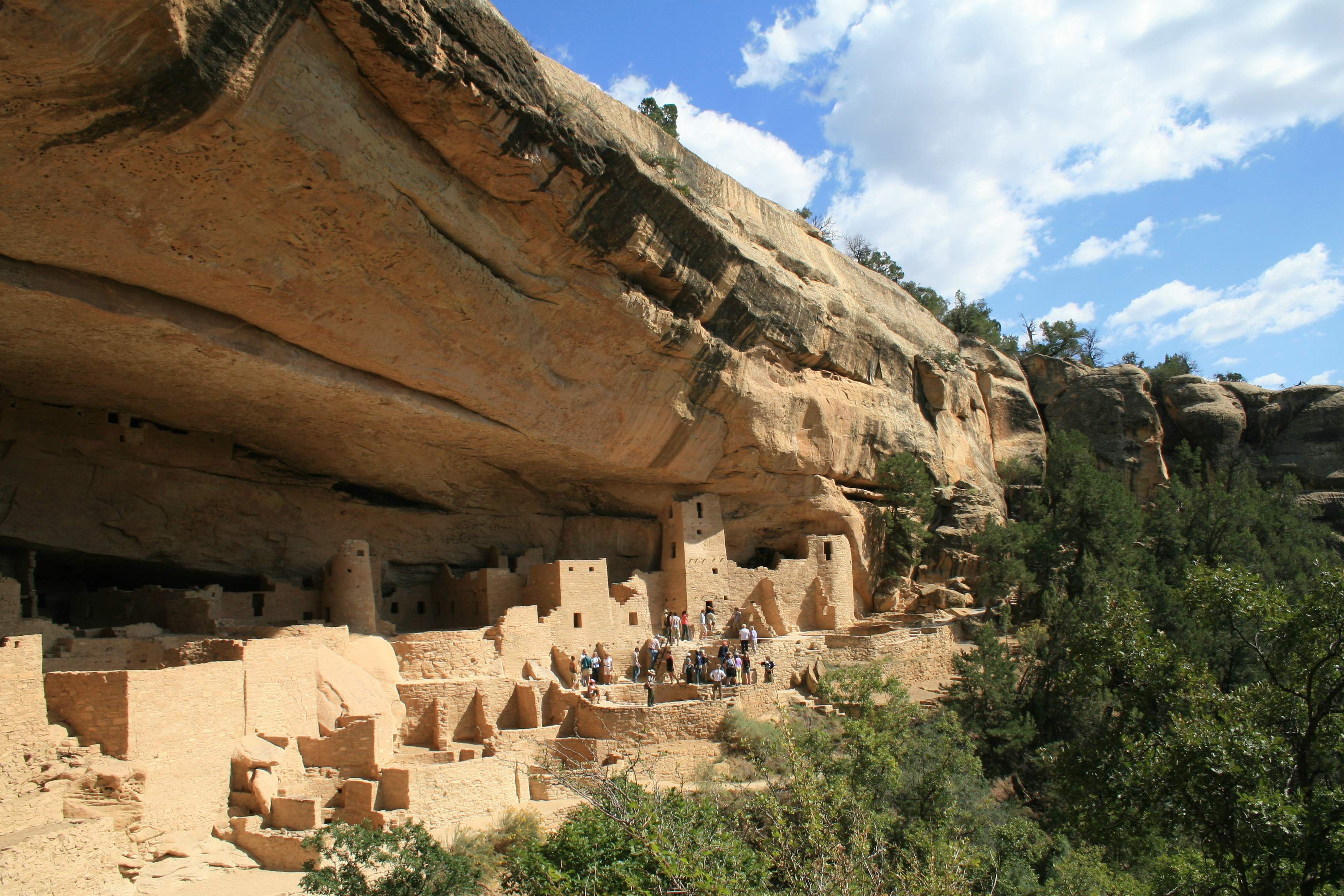 Mesa Verde National Park, Colorado Cliff Palace, as seen from the trail leading to it.